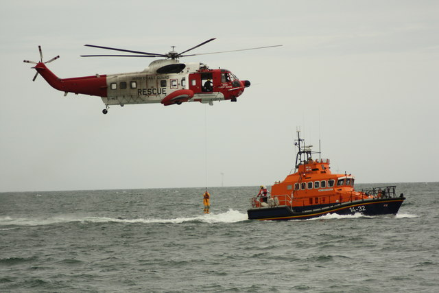 Arklow Lifeboat Relief Trent class Corinne Whitlely taking part in an Air & Sea Rescue Demonstration with the Irish Coast Guard Helicoper EI-MES during the Arklow Maritime Festival